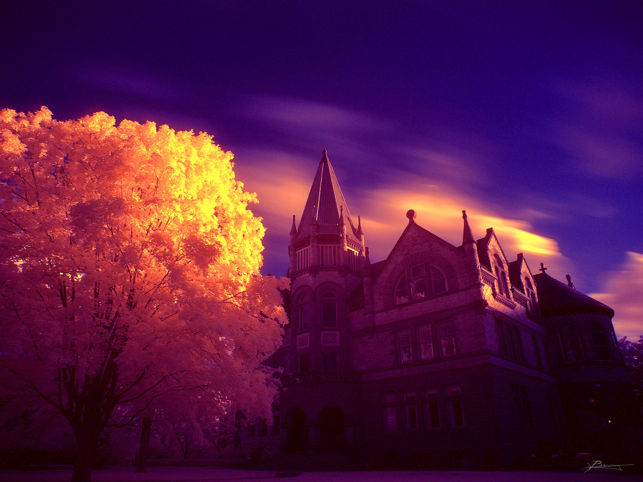 Infrared photograph of Burwash Hall, Toronto, on a summer evening.fairy tale